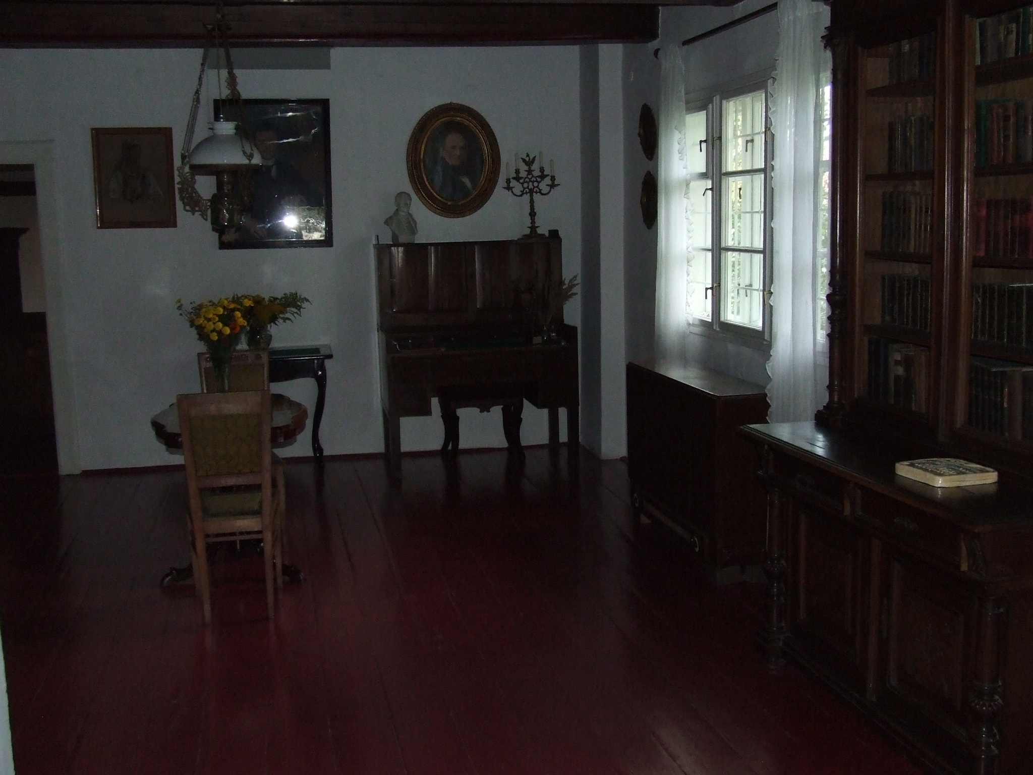 Lucjan Rydel house